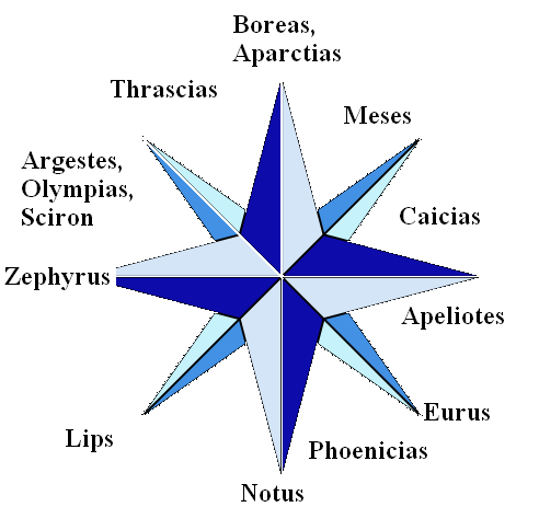 winds according to Aristoteles